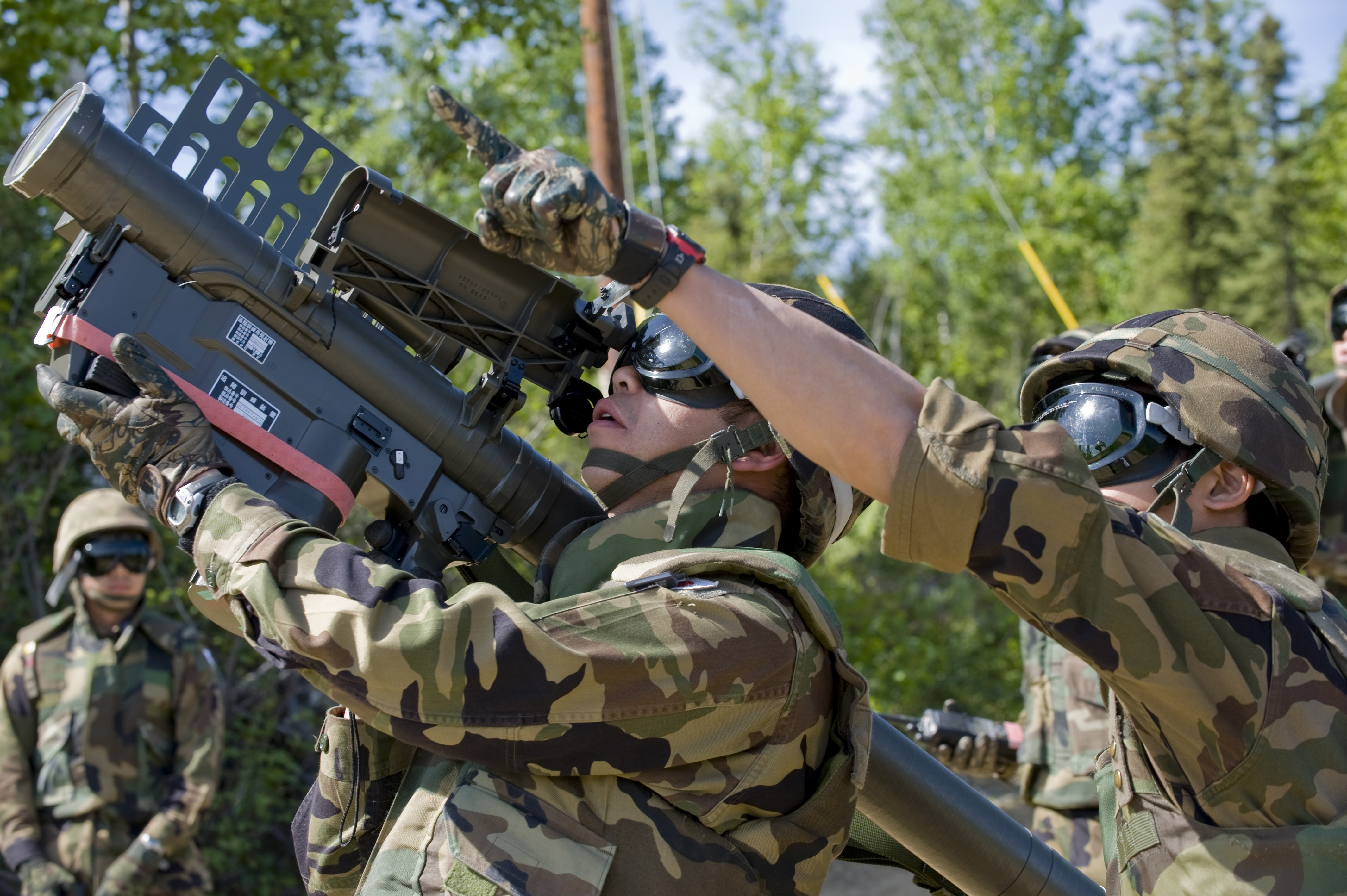 JASDF_Type91_SAM. 6/16/2008 - Staff Sgt. Masayuki Inomata operates a Type 91 Sam-2 Surface to Air missile launcher at enemy aircraft while his teammate Staff Sgt. Hiroshi Yamashita locates the target on the Pacific Alaskan Range Complex June 11, 2008 during RED FLAG-Alaska 08-3. During this exercise Japanese Forces are positioned in varies locations acting as a threat to blue forces aircraft. Both are missile operators assigned to the Japanese Air Self Defense Force. (U.S. Air Force Photo/Airman 1st Class Jonathan Snyder)